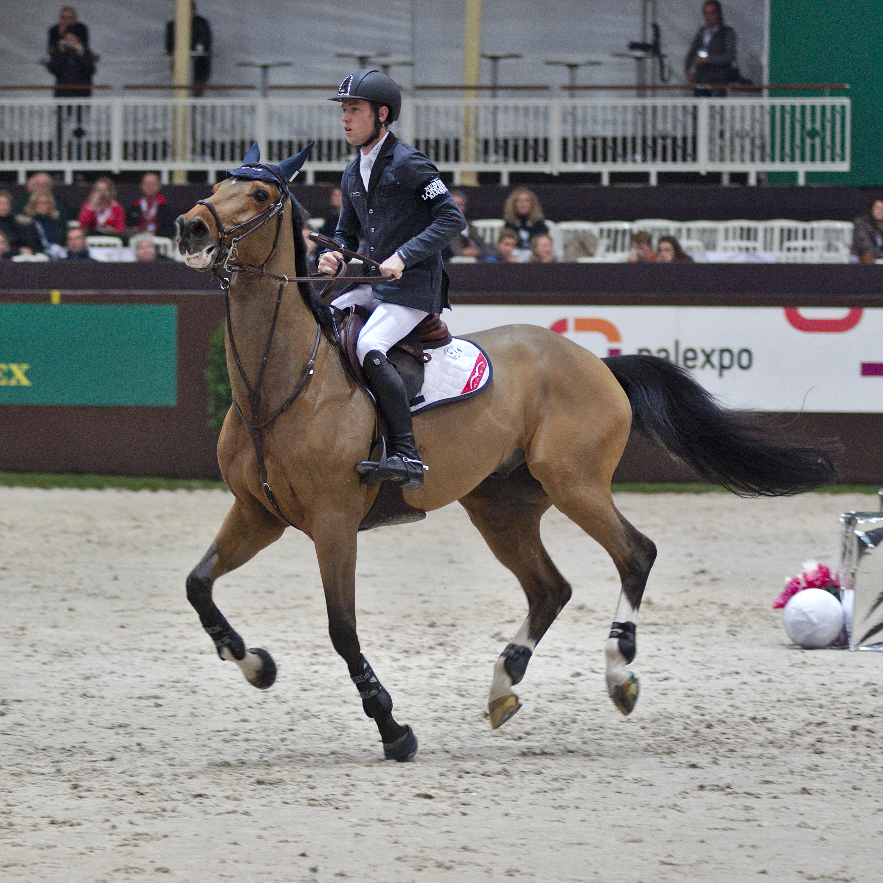 CHI Genève 2013 - 20131212 - Scott Brash et Hello Sanctos